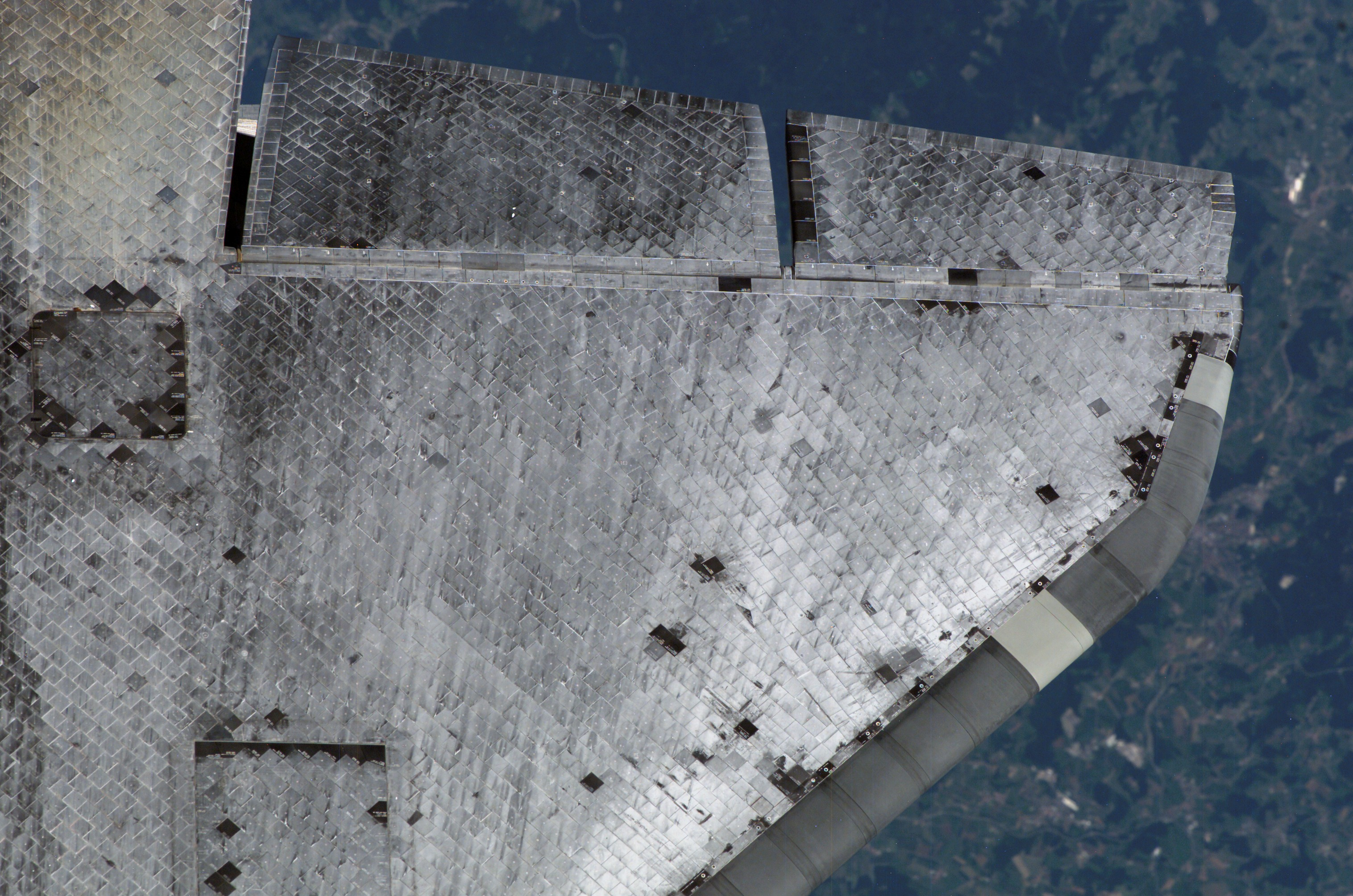 View of the Space Shuttle Discovery’s underside starboard wing and Thermal Protection System tiles photographed during the survey sequence performed by the Expedition 11 crew on the international space station during the STS-114 R-Bar Pitch Maneuver during rendezvous and docking operations.